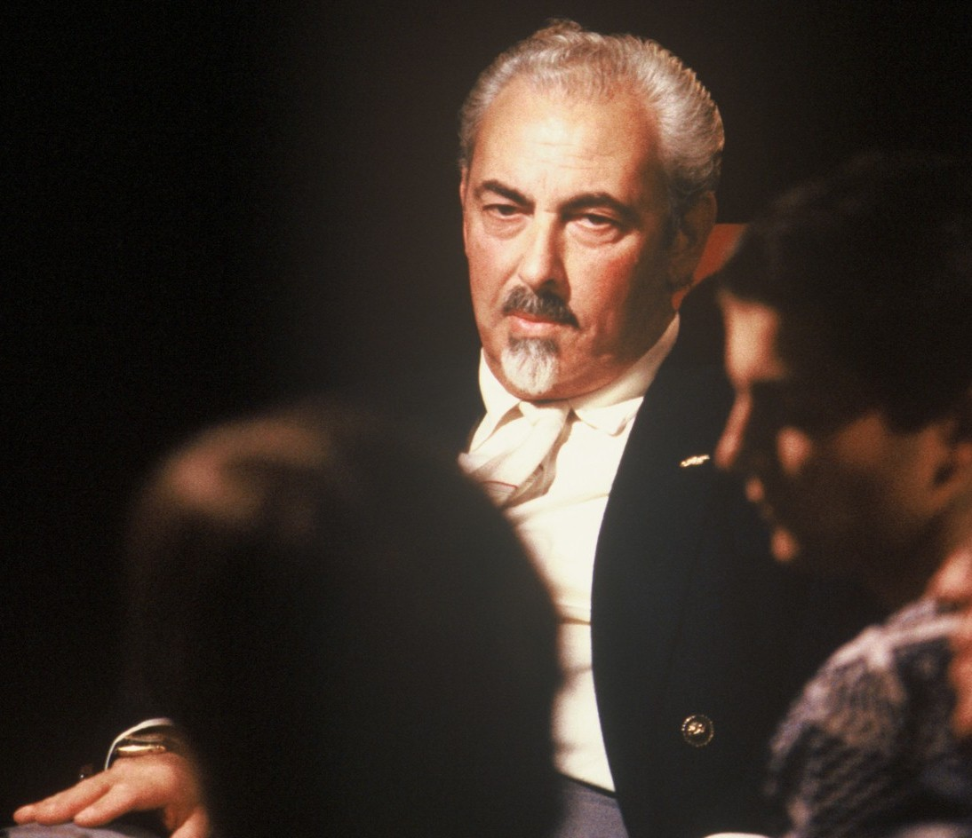 David Berglas appearing on After Dark on 8 July 1989. Other guests included Victor Lownes and Al Alvarez.